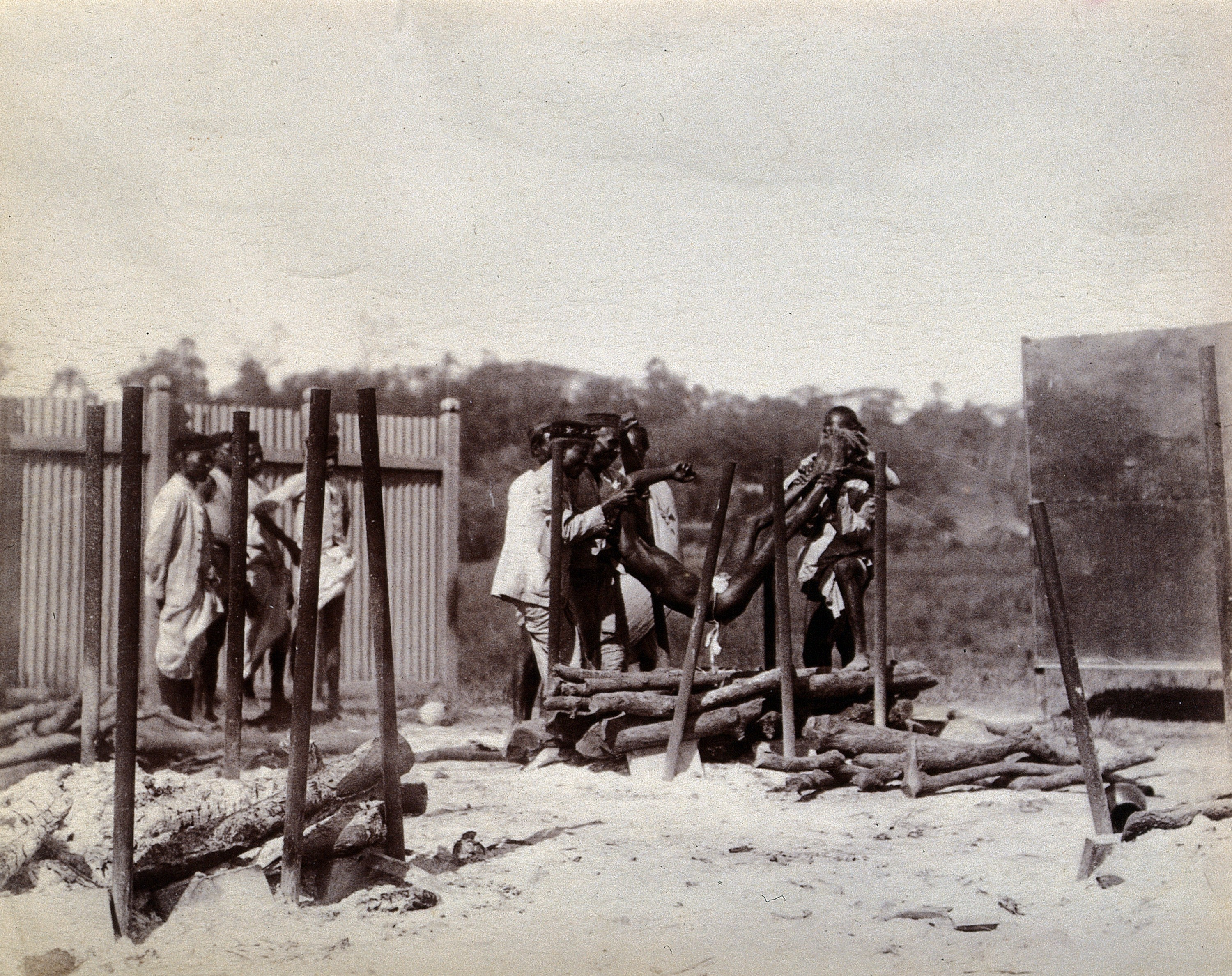 A group of men lower the body of a dead man on to a pyre of logs prior to a Hindu cremation ceremony in Bombay at the time of the plague. Photograph, 1896/1897. Iconographic Collections Keywords: Cremation; photograph; Plague; India